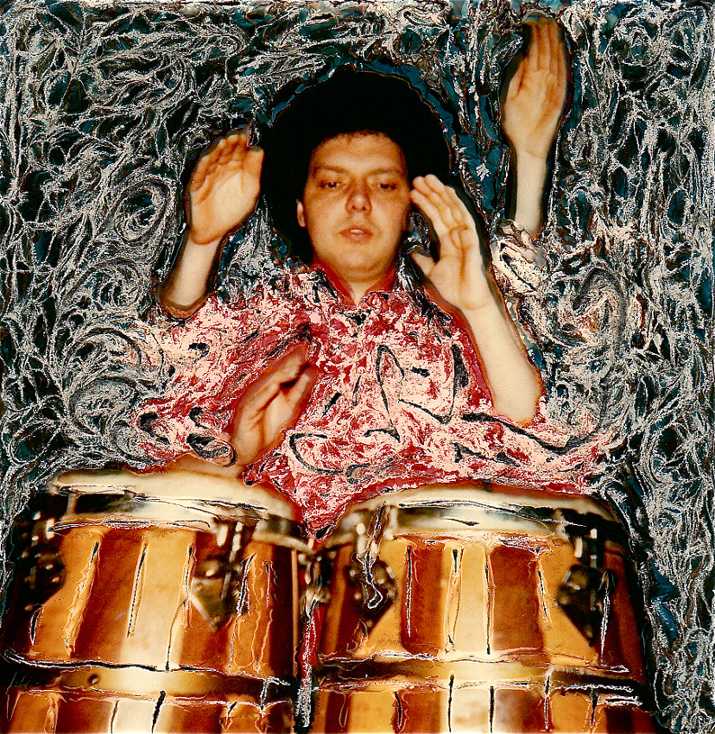 Polaroid sx70